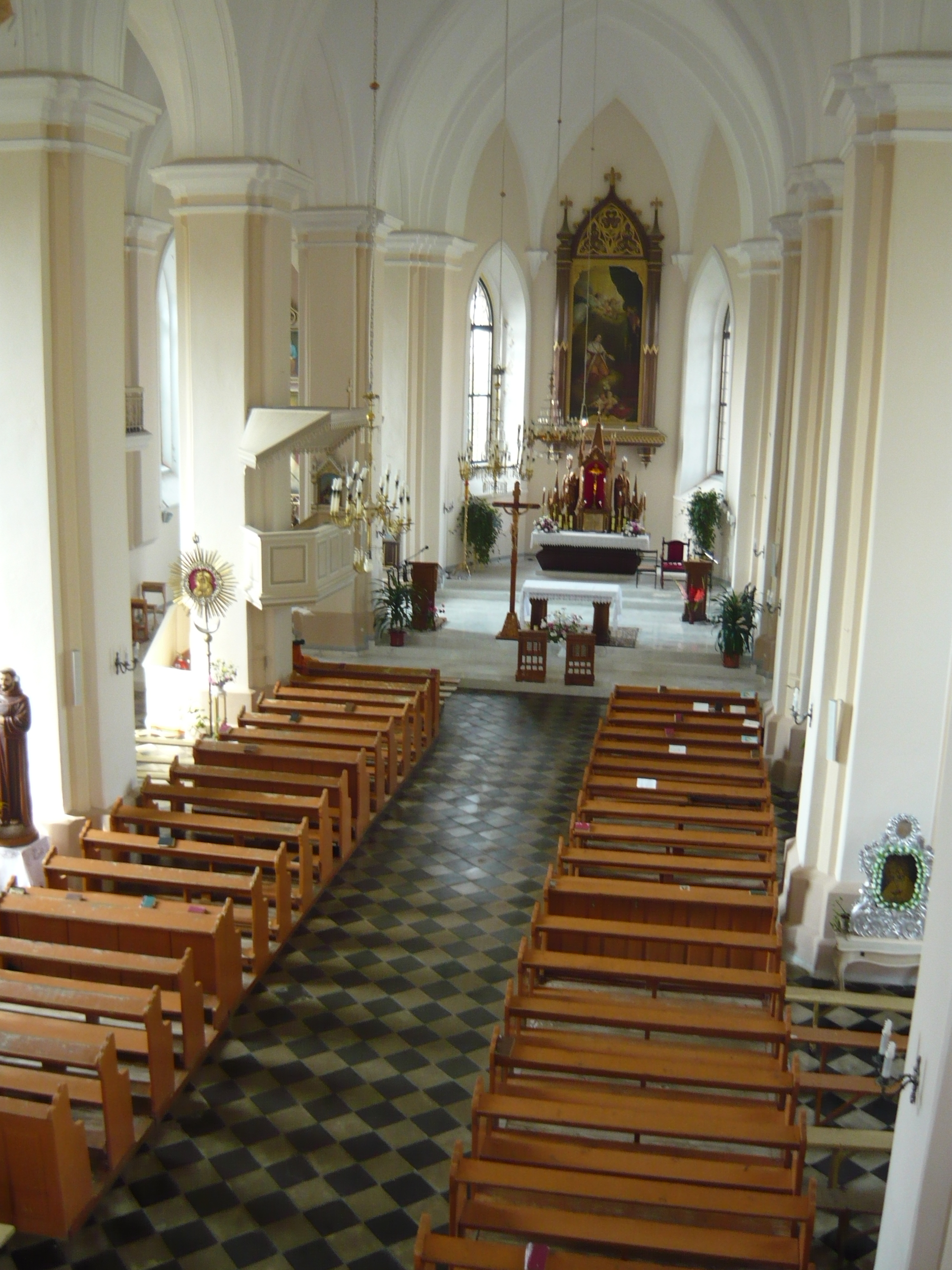 Беларуская (тарашкевіца): Казіміраўскі касьцёл. в. Ліпнішкі This is a photo of Belarusian heritage monument. Reference number: 413Г000301 ( WLM)